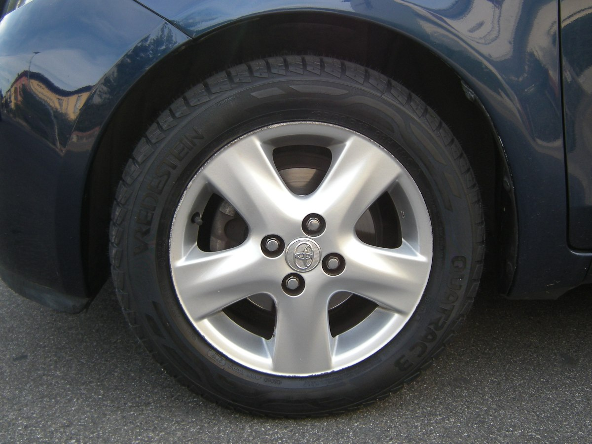 Vredestein Quatrac 3 M+S ❄ (four seasons) tire